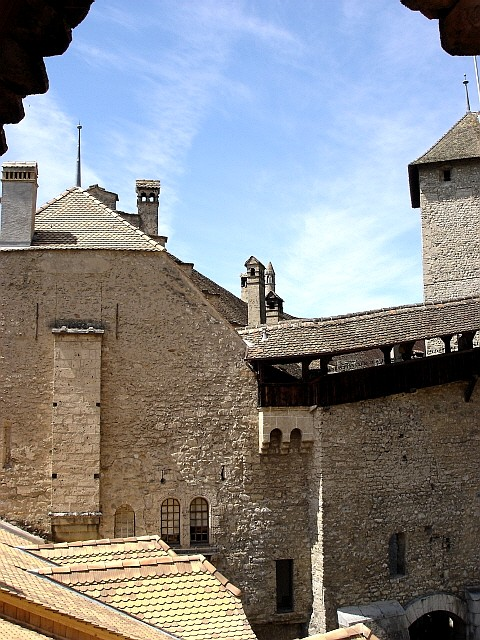 Chillon